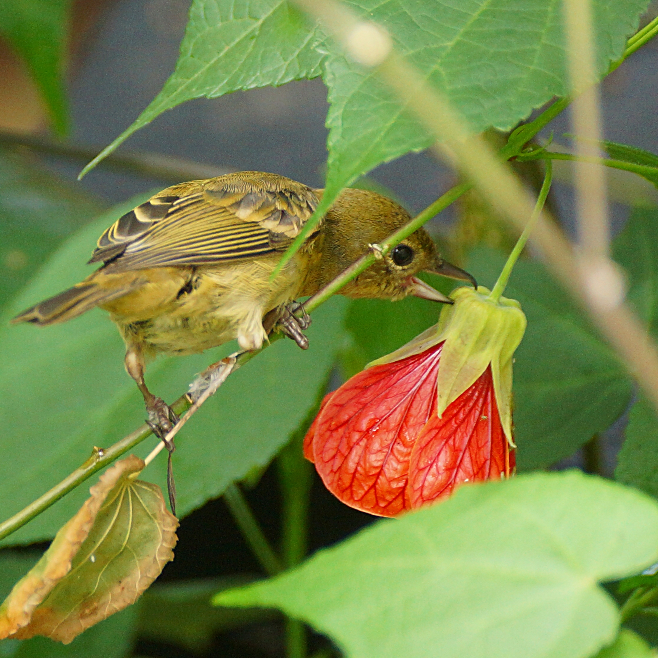 Diglossa sittoides or Rusty flowerpiercer female, Together with the genus Diglossopis, they form a group known as flowerpiercers because of their habit of piercing the base of flowers to access nectar that otherwise would be out of reach. This is done with their highly modified bill. in (Bogota, Colombia)